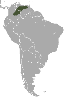 Llanos Long-nosed Armadillo (Dasypus sabanicola) range